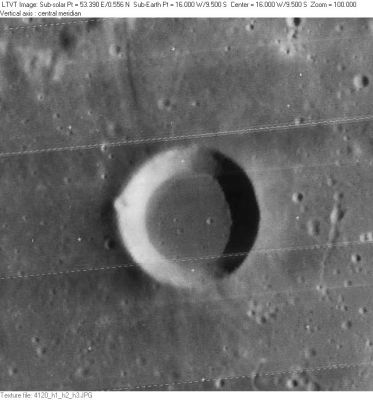 Tolansky lunar crater - Lunar Orbiter - IV image LO-IV-120H LTVT